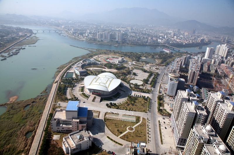 Xinfeng River flow into Dong River